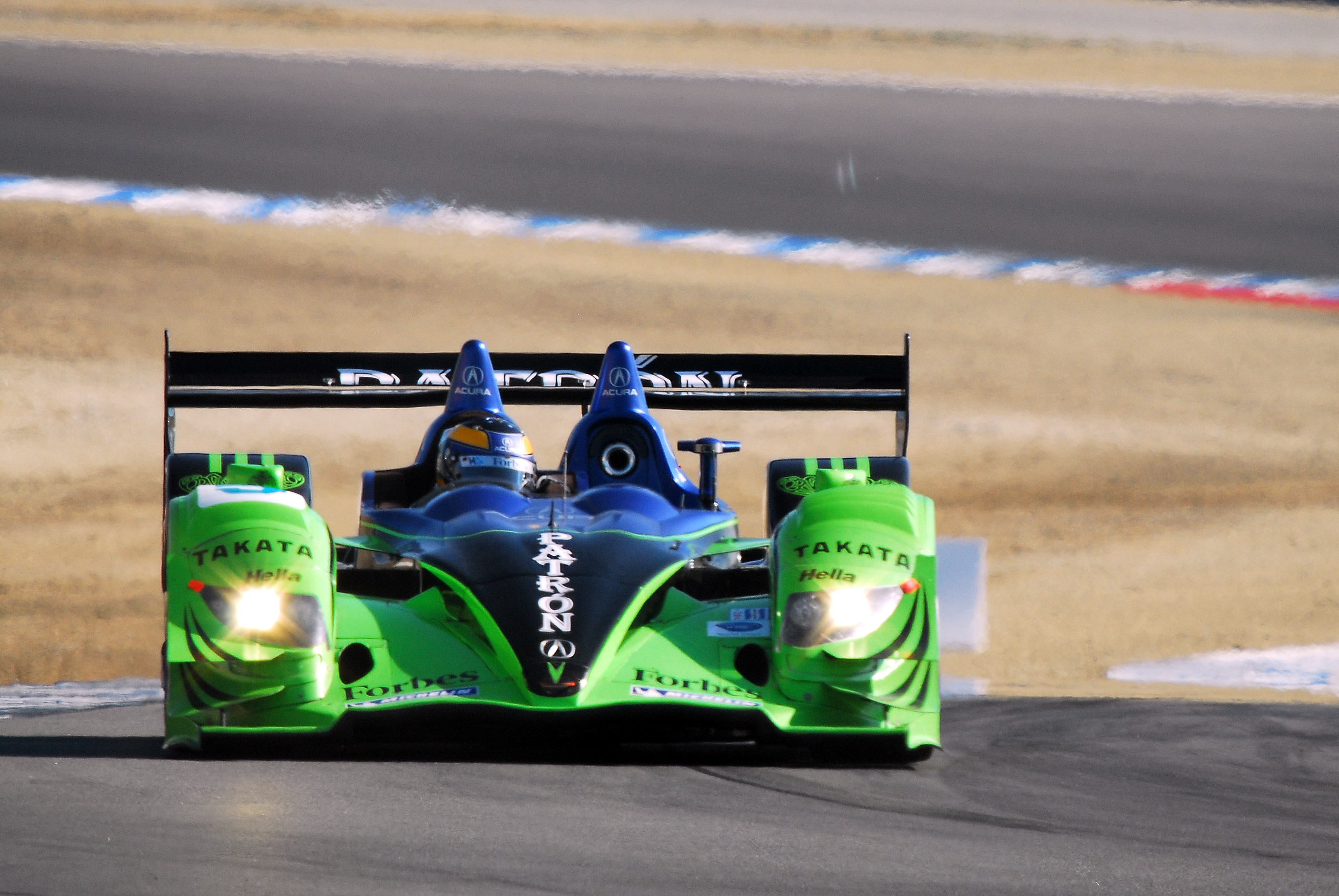 Patron Highcroft Racing's Acura ARX-01B at the 2008 Monterey Sports Car Championships.